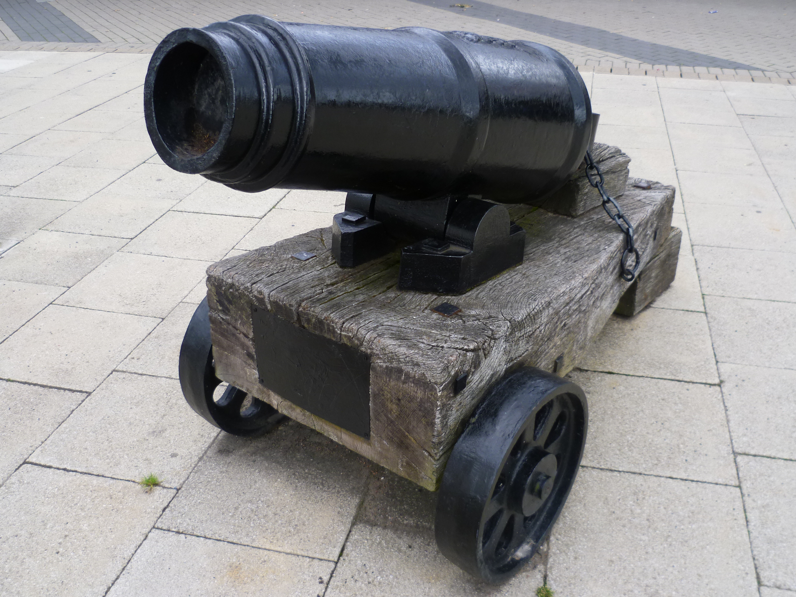 Carronade in King Street, Stenhousemuir